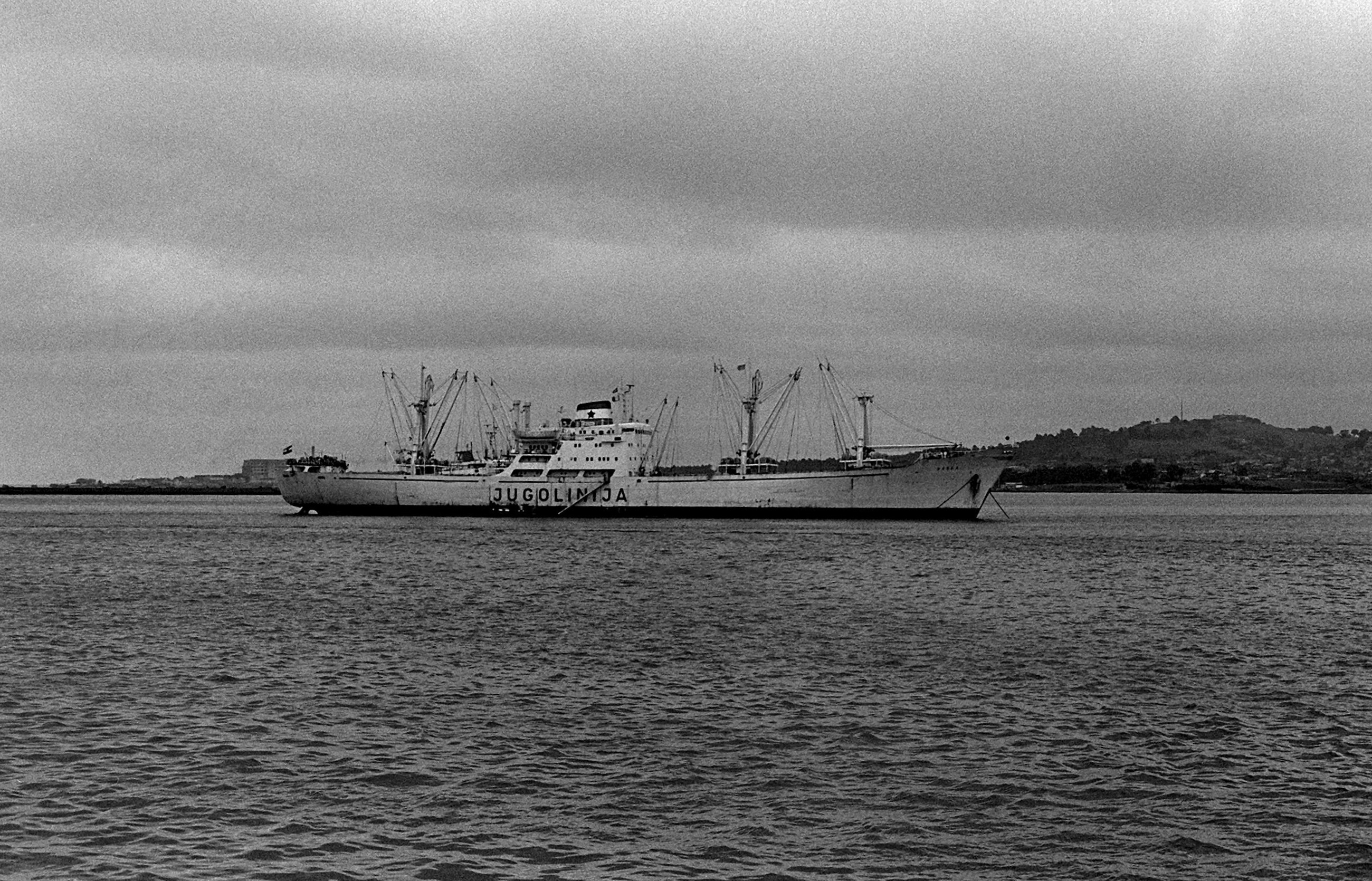 A starboard beam view of the Yugoslav freighter Baška in the harbor during exercise Unitas XX.